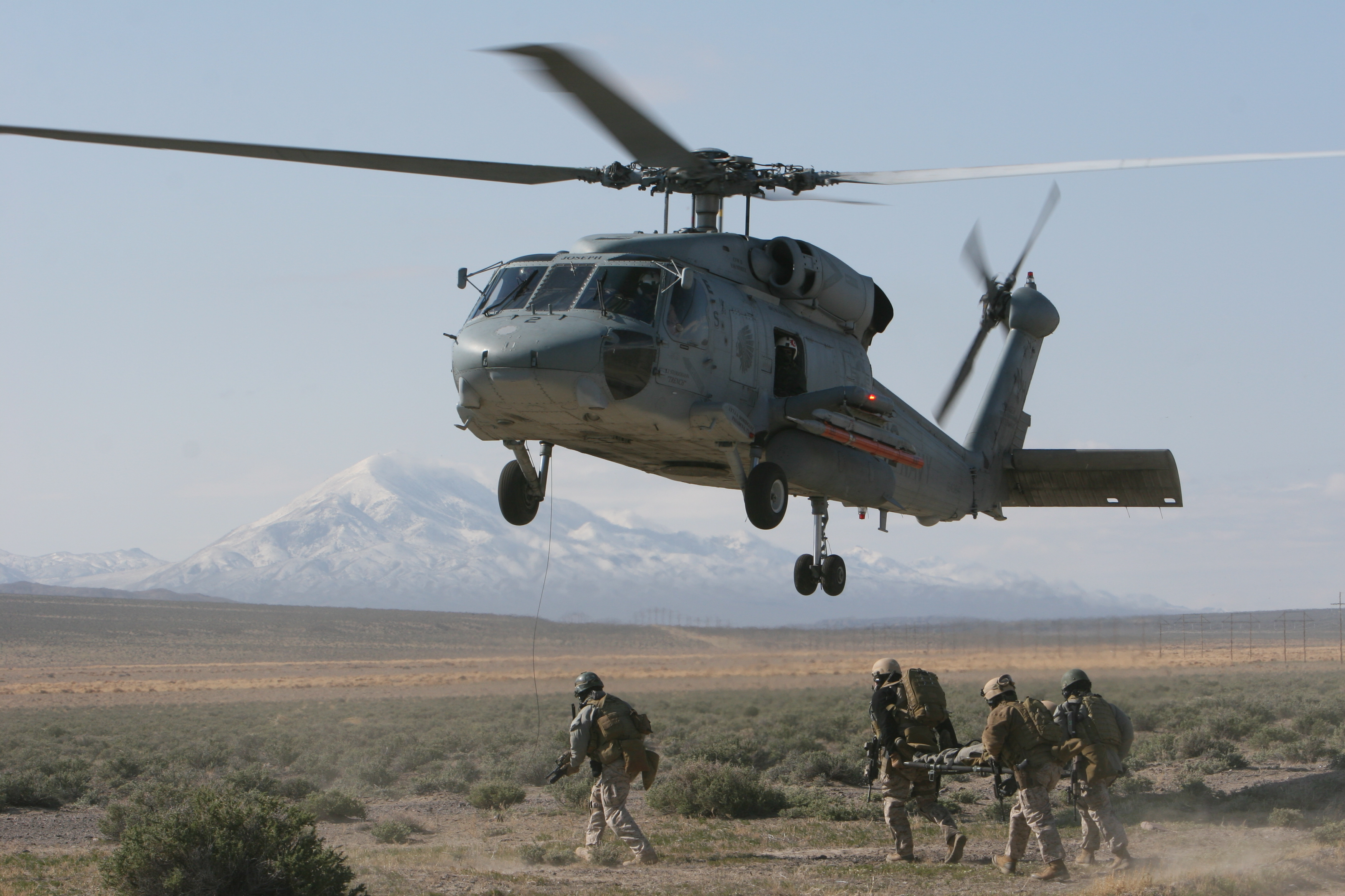 A helicopter comes in for a landing in order to evacuate a simulated casualty, as fellow Marines and sailors carry the Marine on a stretcher. A company from 2nd Marine Special Operations Battalion, U.S. Marine Corps Forces Special Operations Command participated in a Full Mission Profile exercise at Fallon, Nev. U.S. Marine Corps photo by Lance Cpl. Stephen C. Benson.